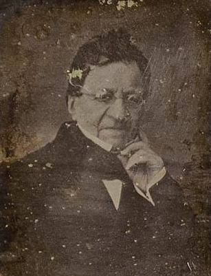 Martin Joseph Haller (1770-1852), German banker in Hamburg